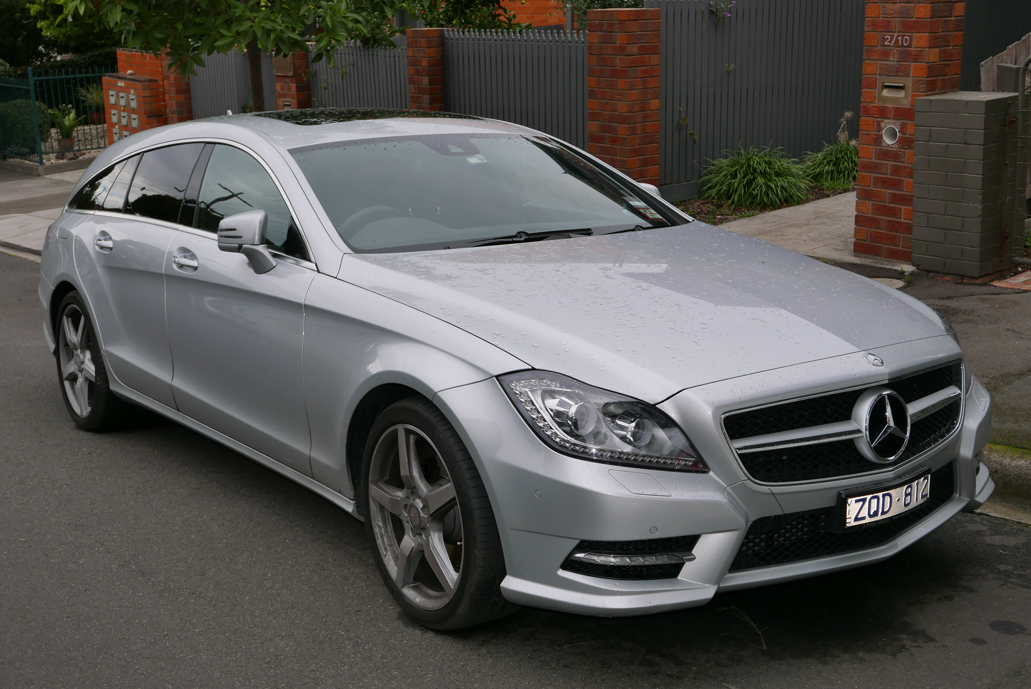 2013 Mercedes-Benz CLS 250 CDI (X 218) BlueEFFICIENCY station wagon. Photographed in Hawthorn, Victoria, Australia. Vehicle registration enquiry results Jurisdiction Victoria Registration ZQD812 Chassis code WDD2189032A084212 Engine code 65192431495734 Compliance date 2013-03 Year of manufacture 2013